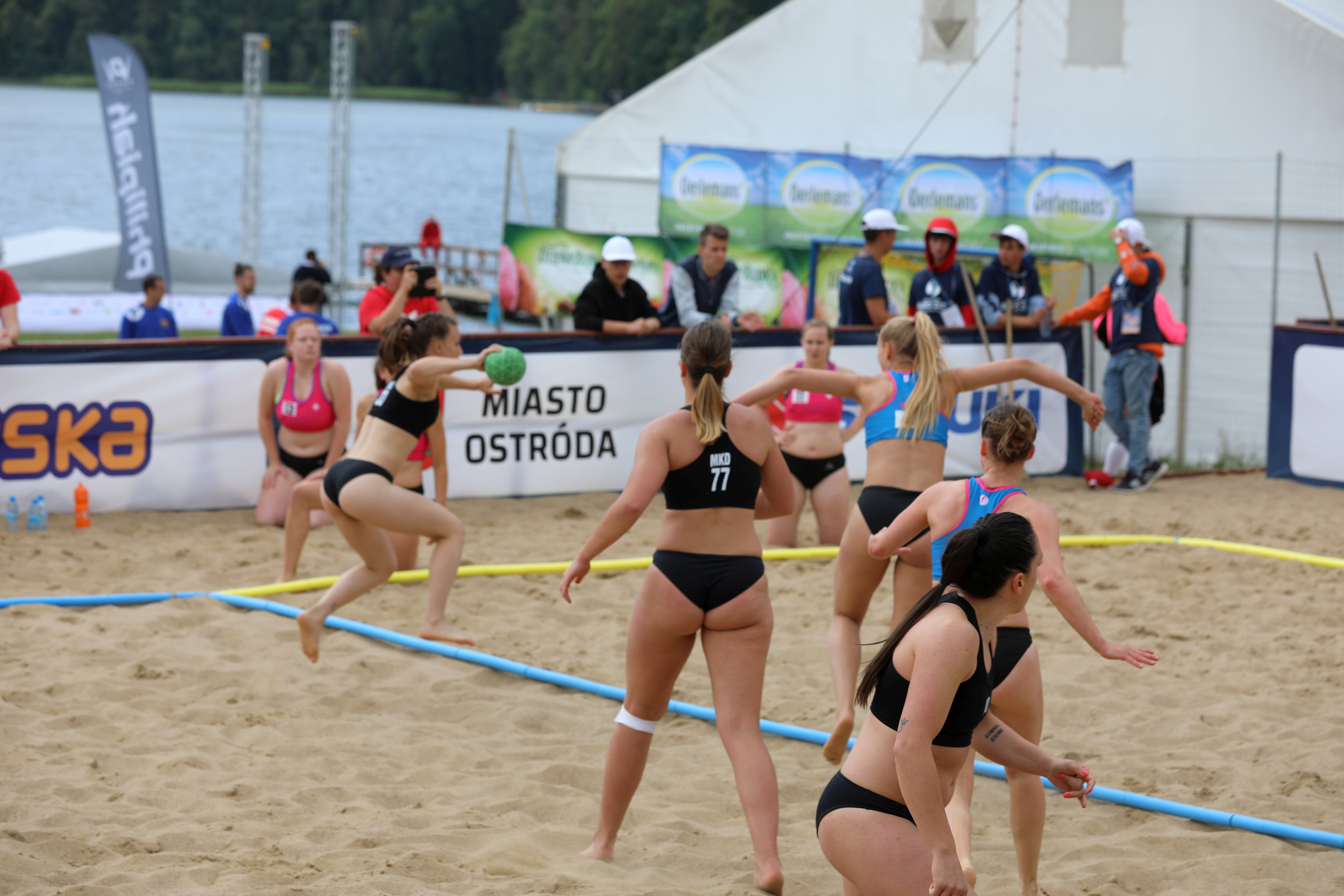 Beach handball Euro; Day 3: 4 July 2019 – Women Consolation Round Group III – Switzerland-North Macedonia 2:0 (21:6, 23:20)